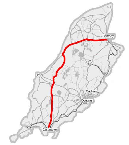 This map may be incomplete, and may contain errors. Don't rely solely on it for navigation.